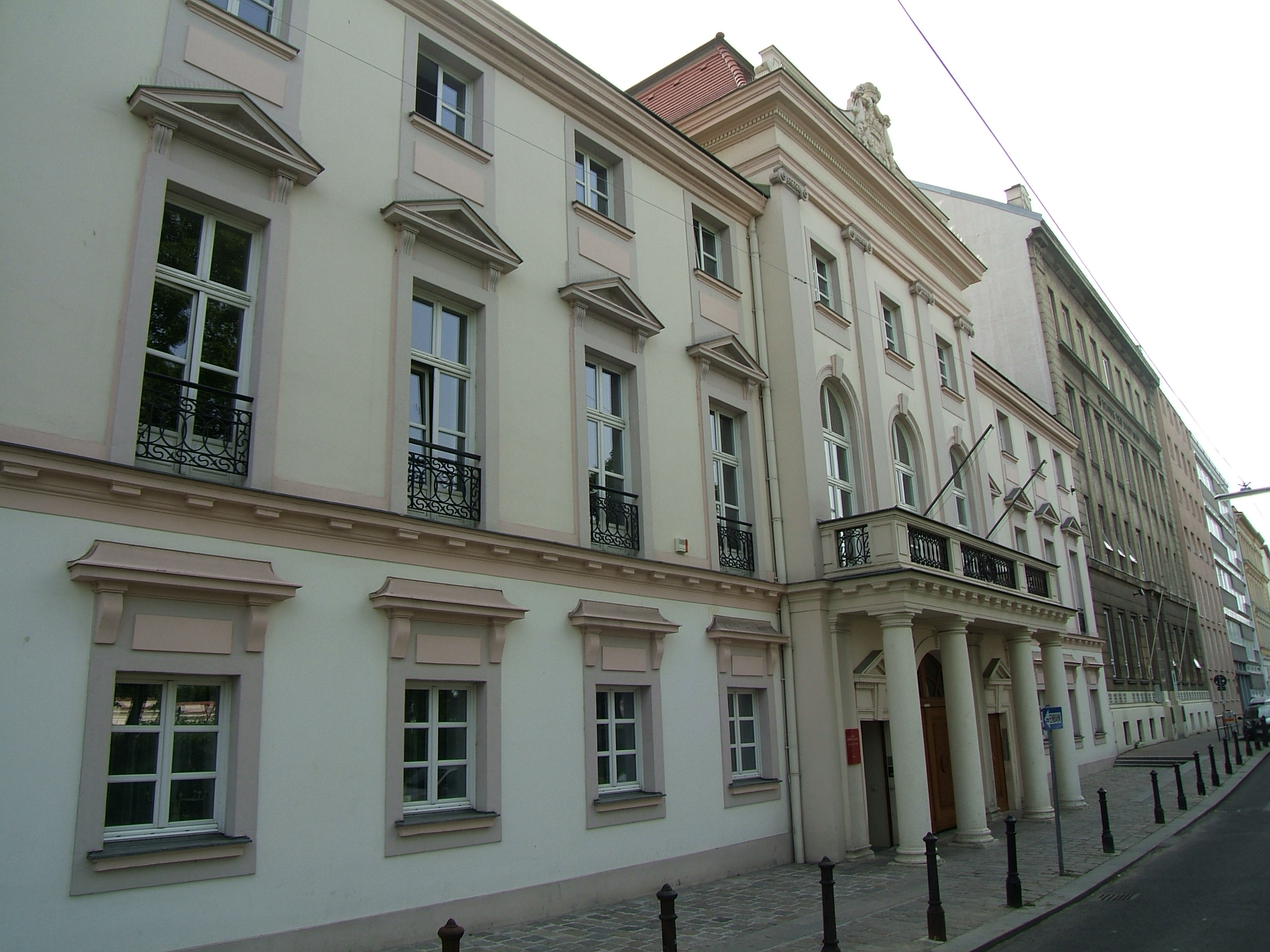 Palais Grassalkovich in Vienna 2nd district Obere Augartenstraße 40